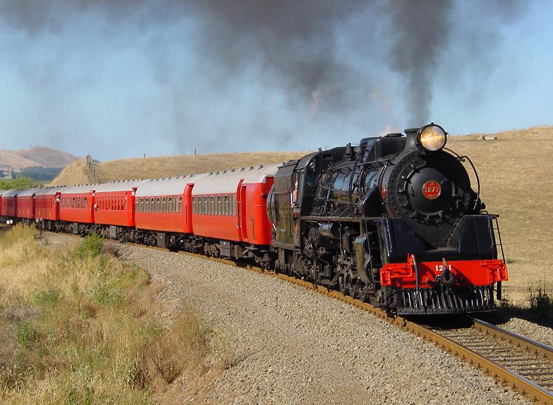 Original caption: “JA1271 with excursion consist climbing the Opapa incline - 16 February 2003 Joseph Christianson” — On photo